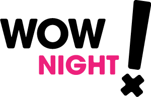 logotyp